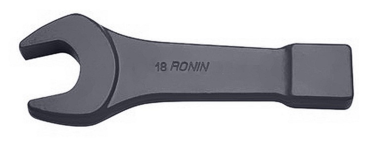 Striking face box wrench, slammer wrench, slugger wrench or hammer wrench